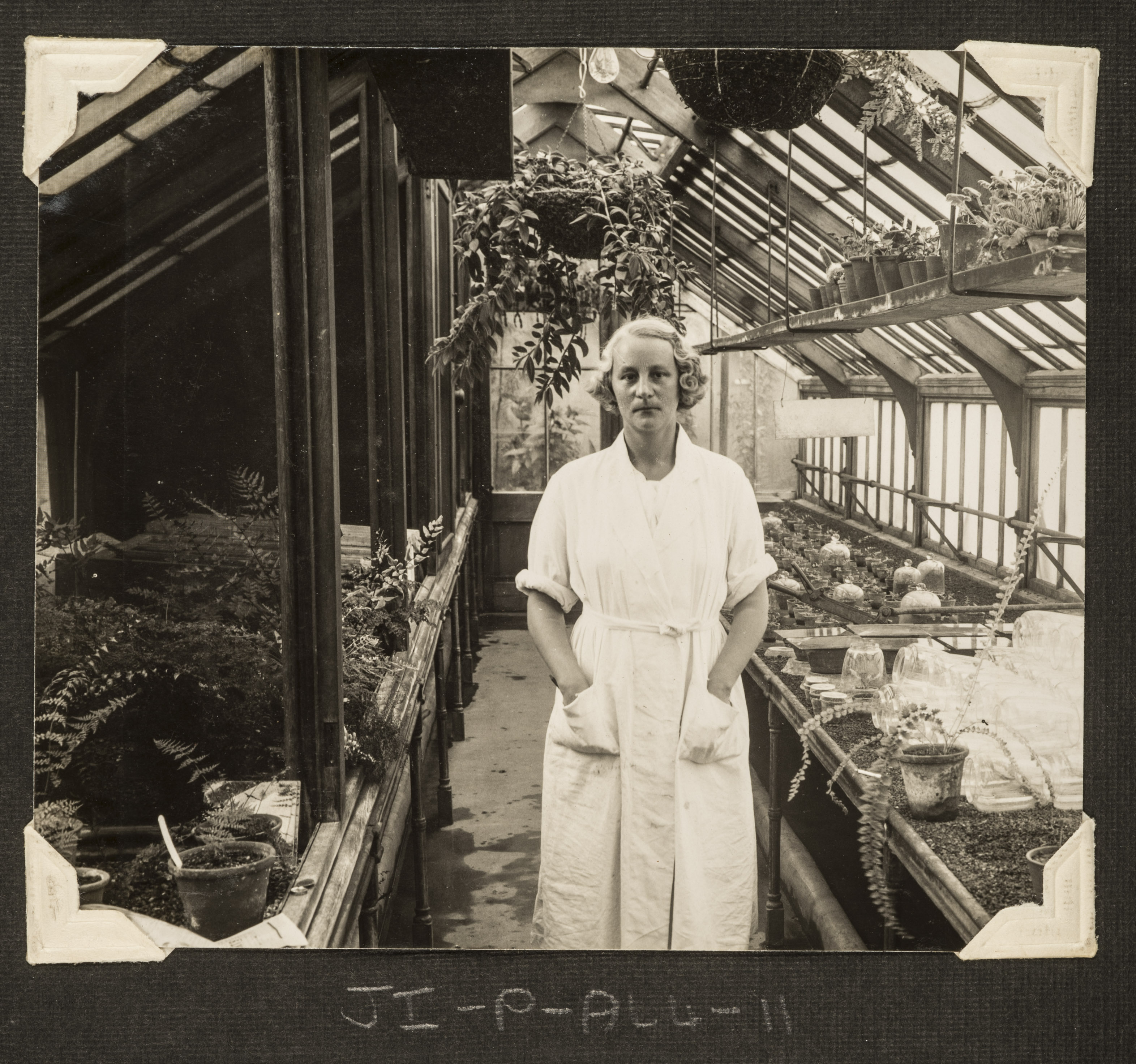 From the John Innes Archive